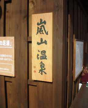 Arashiyama Onsen in Arashiyama, Kyoto, Japan.